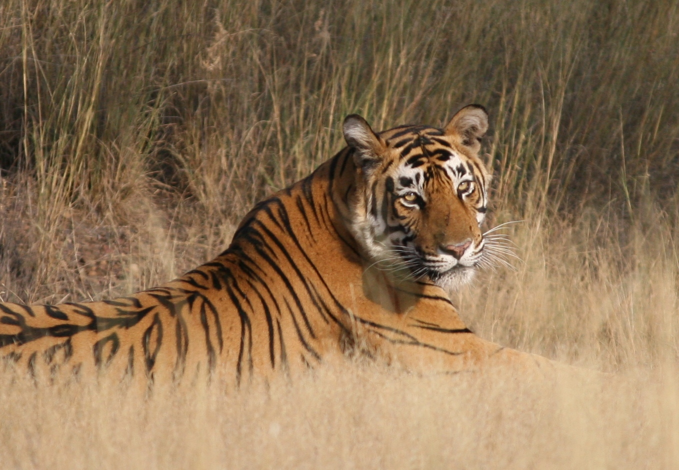 Reclining tiger. Taken from the back of a truck in Ranthambore National Park.